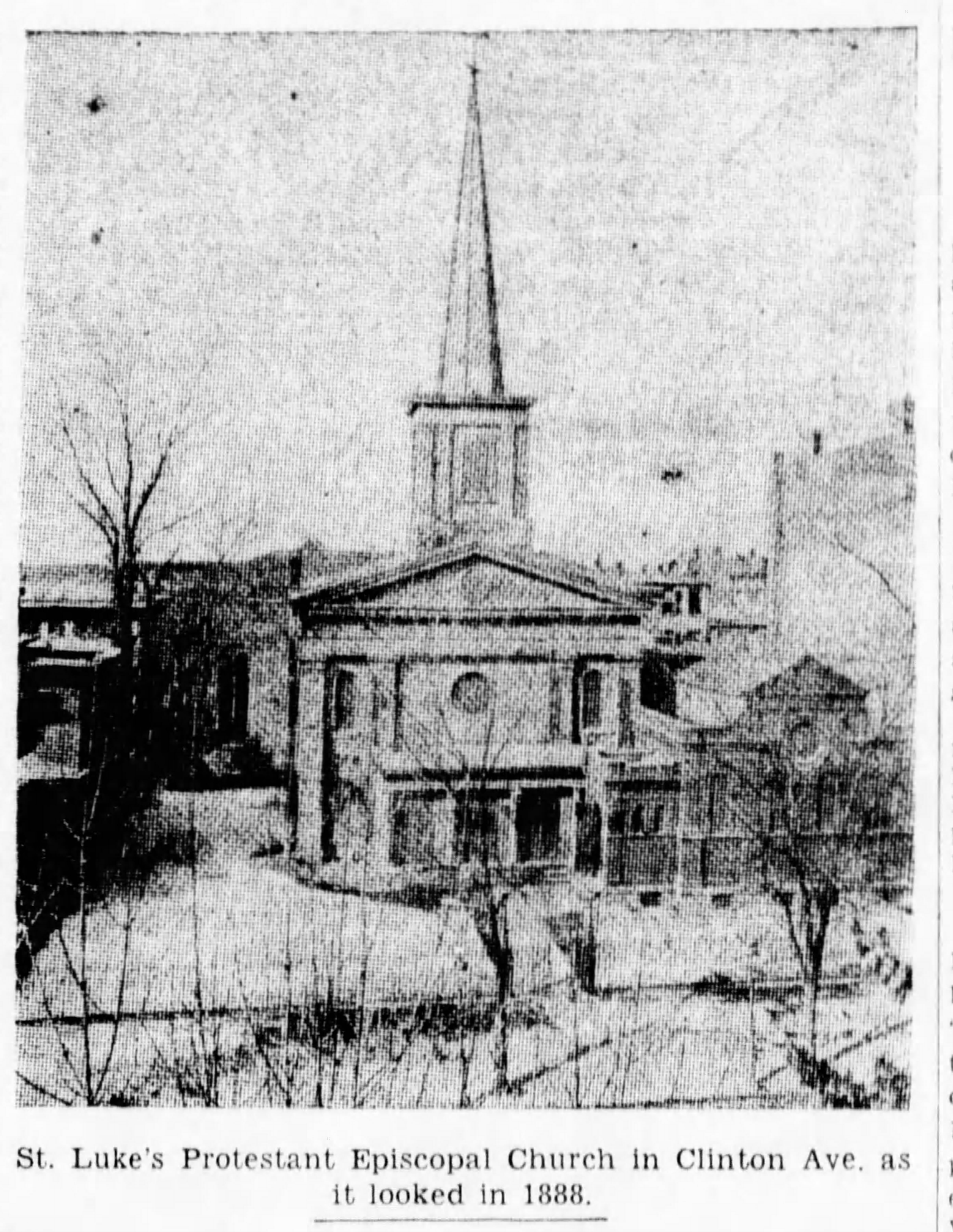 St. Luke's Protestant Episcopal Church in Clinton Ave as it looked in 1888